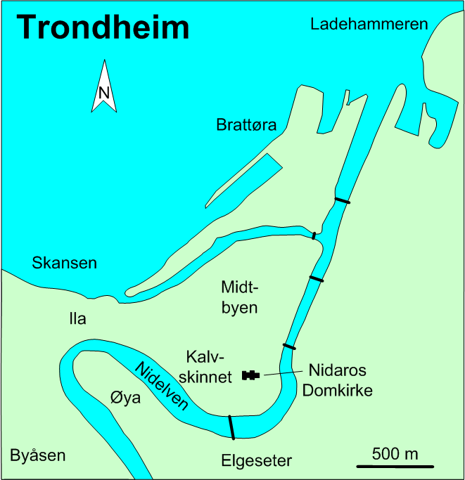 Overview map sketch of Trondheim, Norway